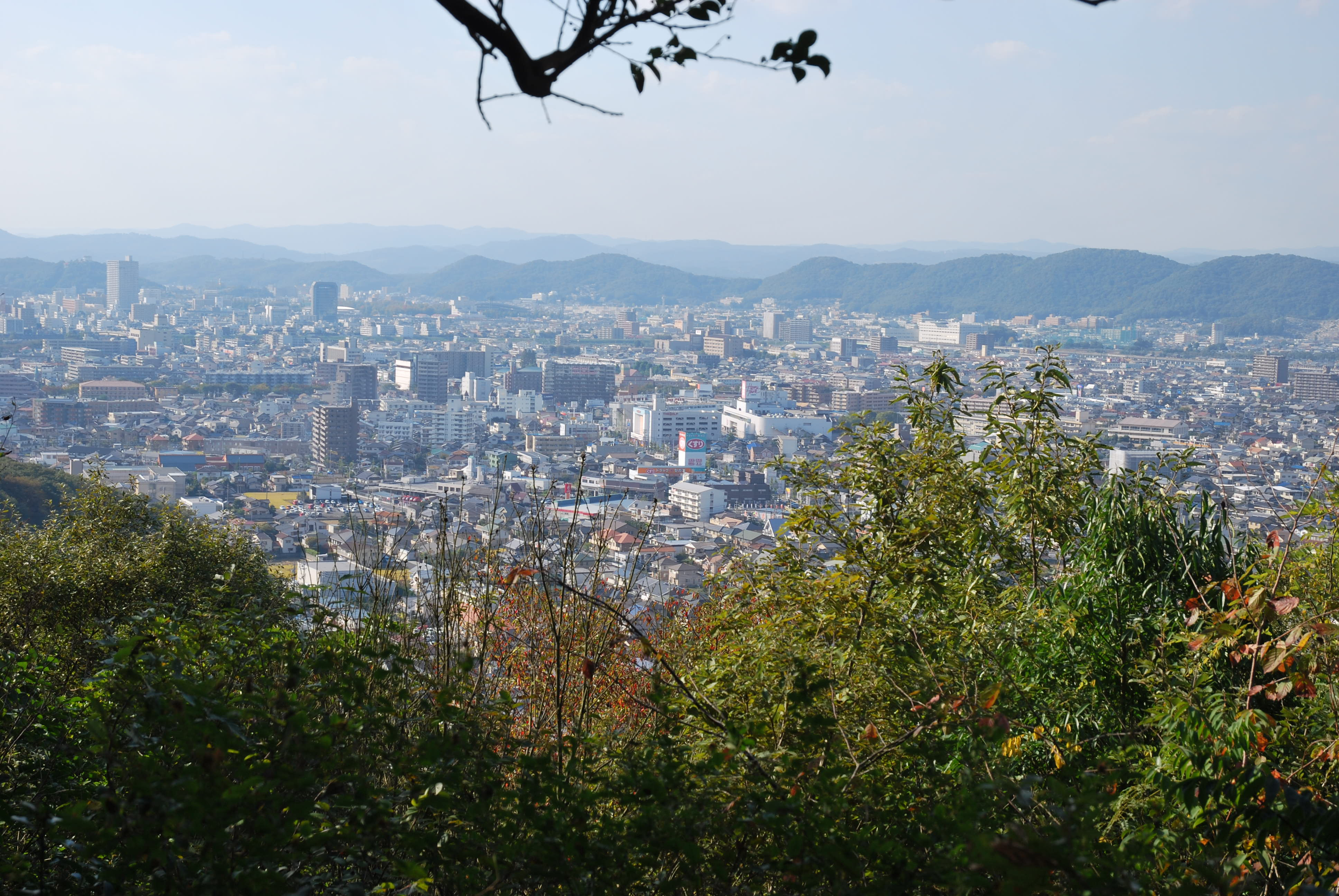 Okayama city view from Myozenji Castle